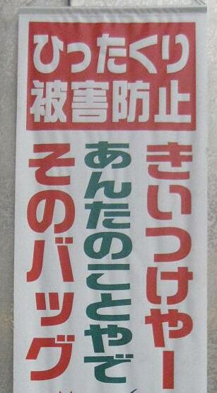 A caution about a snatch damage written in Osaka dialect.